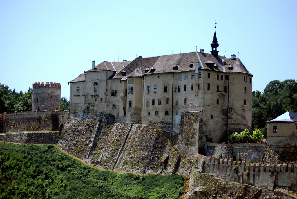 The castle at Český Šternberk, south-east of Prague, built around 1241.